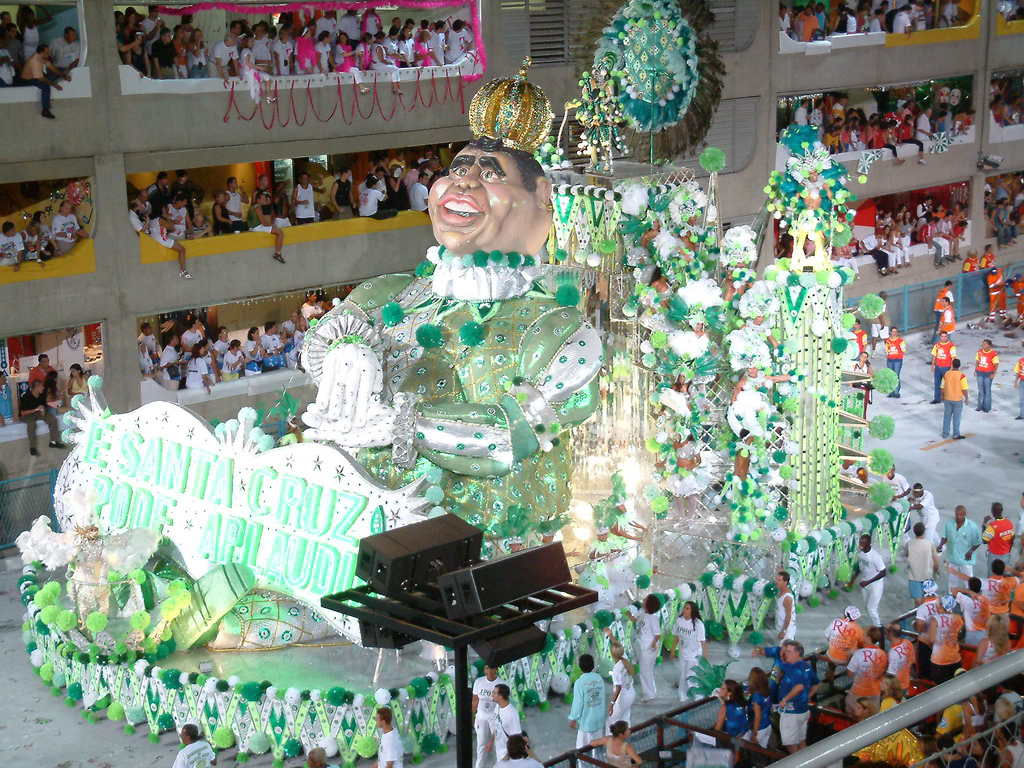 Rio Carnival 2003 Photo: Andrei Snitko